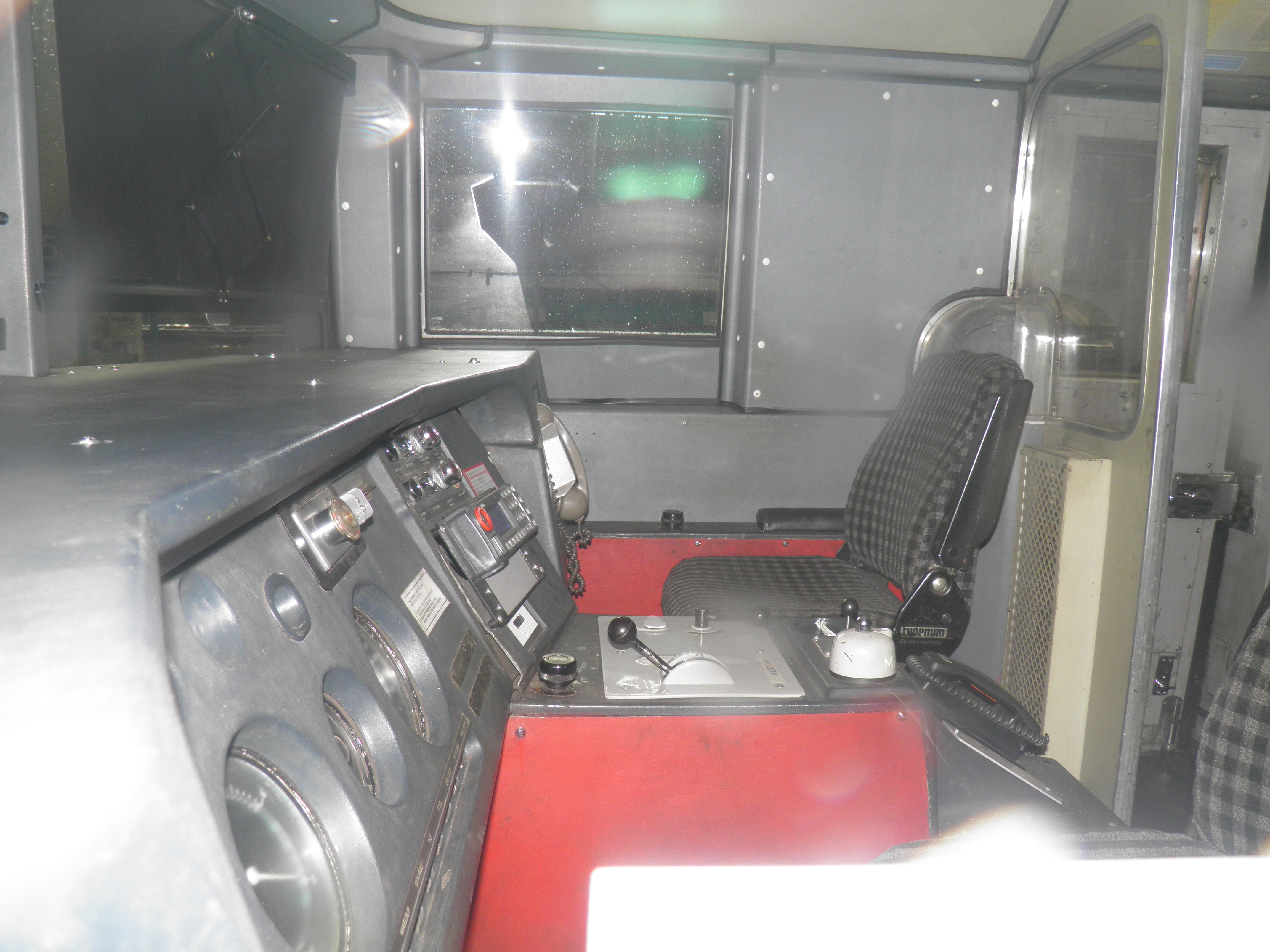 the blunt end cab of 91101